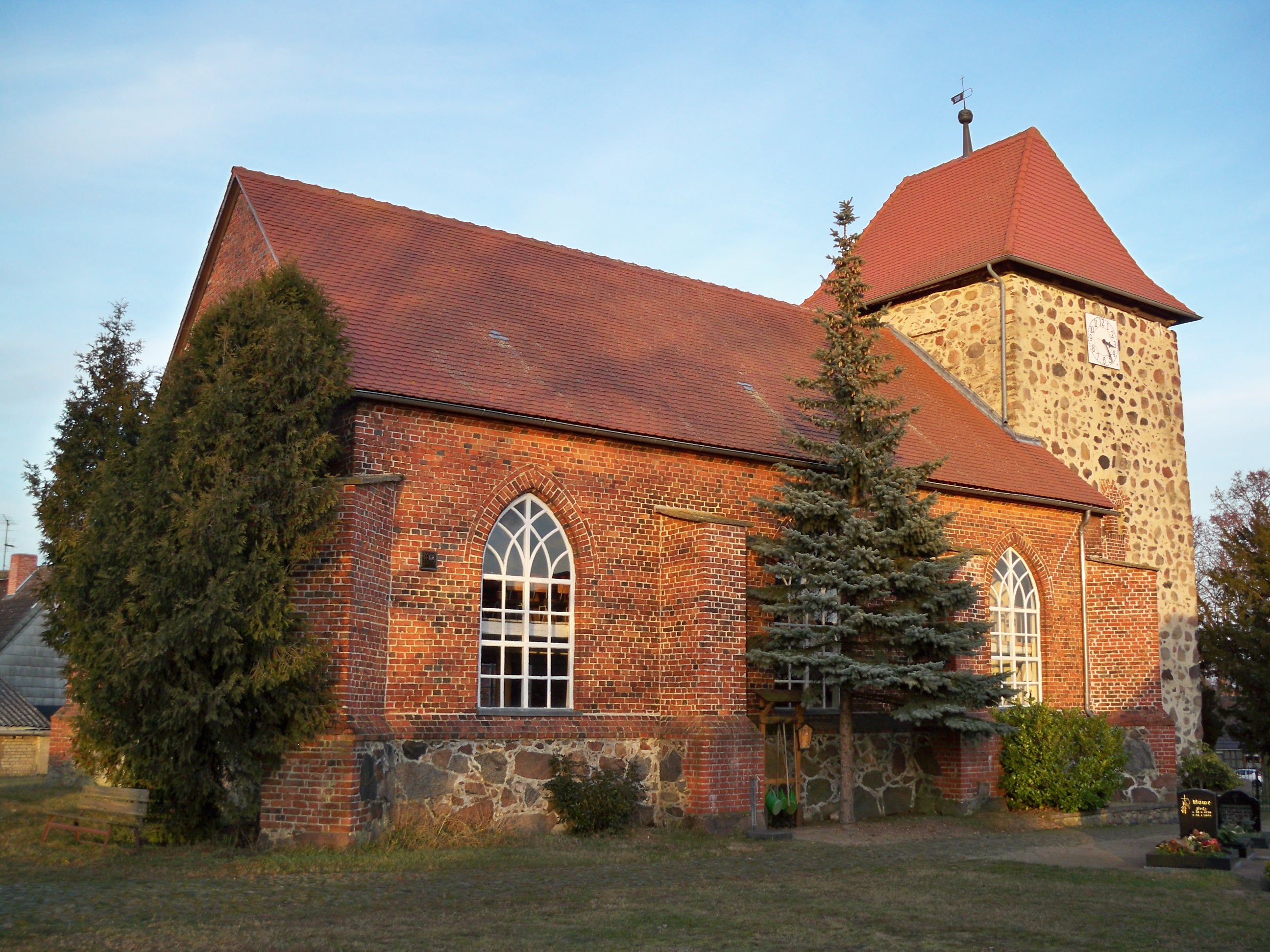 Tangeln, Saxony-Anhalt, village church